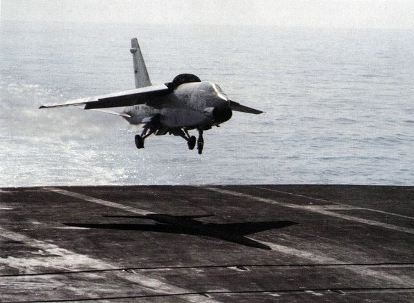 A U.S. Navy Vought RF-8G Crusader from Photographic Reconnaissance Squadron VFP-63 Det.2 "Eyes of the Fleet" landing aboard the aircraft carrier USS Coral Sea (CV-43). VFP-63 Det.2 was assigned to Carrier Air Wing 14 (CVW-14) aboard the Coral Sea for a deployment to the Western Pacific and the Indian Ocean from 20 August 1981 to 23 March 1982.